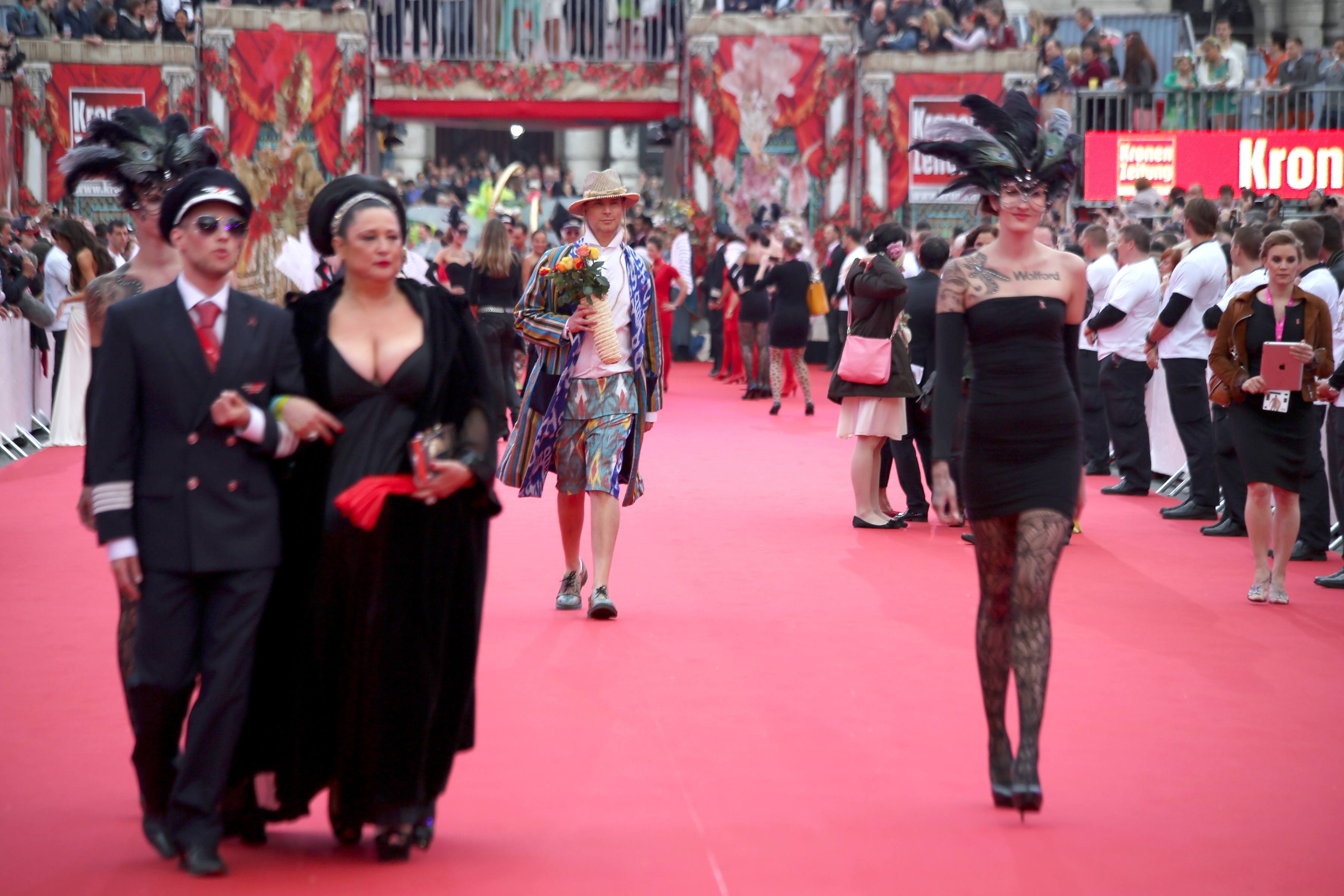 Life Ball 2014, Stella Ellis and Cameron Silver on the red carpet in front of the Rathaus (Town Hall) of Vienna, Austria.